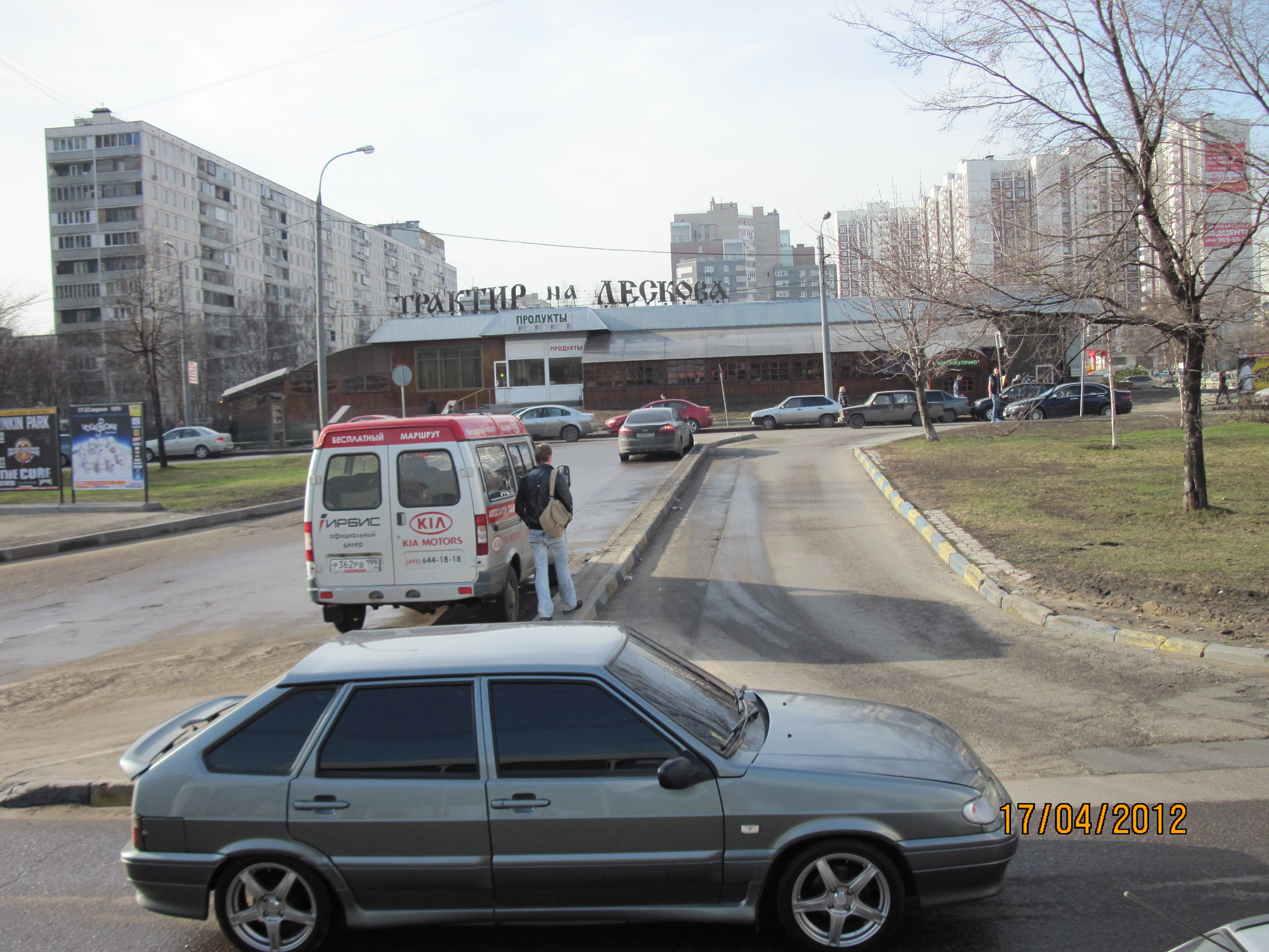 Part of road with left-hand traffic in Russia (exception). Moscow, Leskova street, 2012-04-17